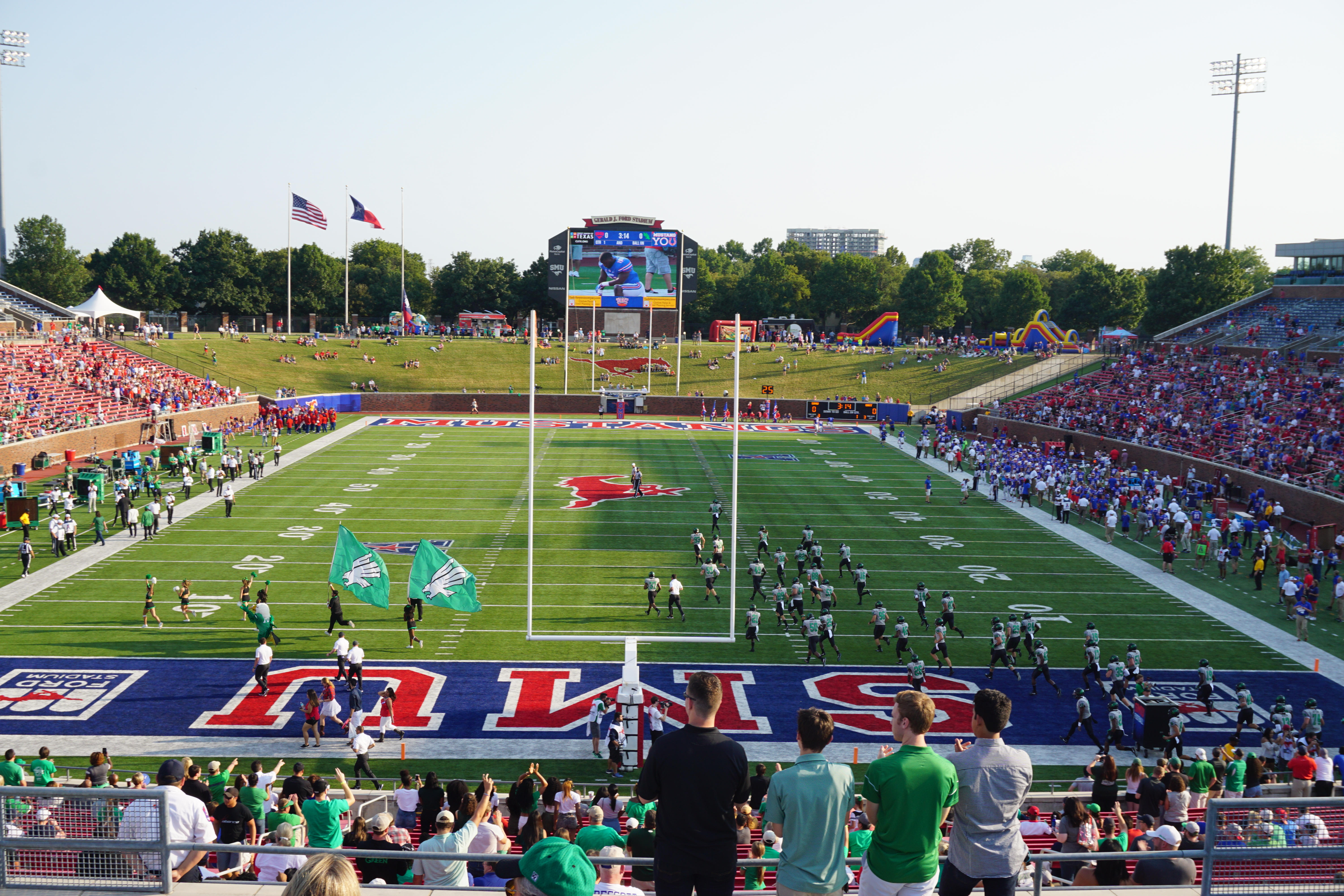 North Texas entering the field before the North Texas Mean Green vs. Southern Methodist Mustangs football game at Gerald J. Ford Stadium in University Park, Texas (United States). Southern Methodist won 54–32.